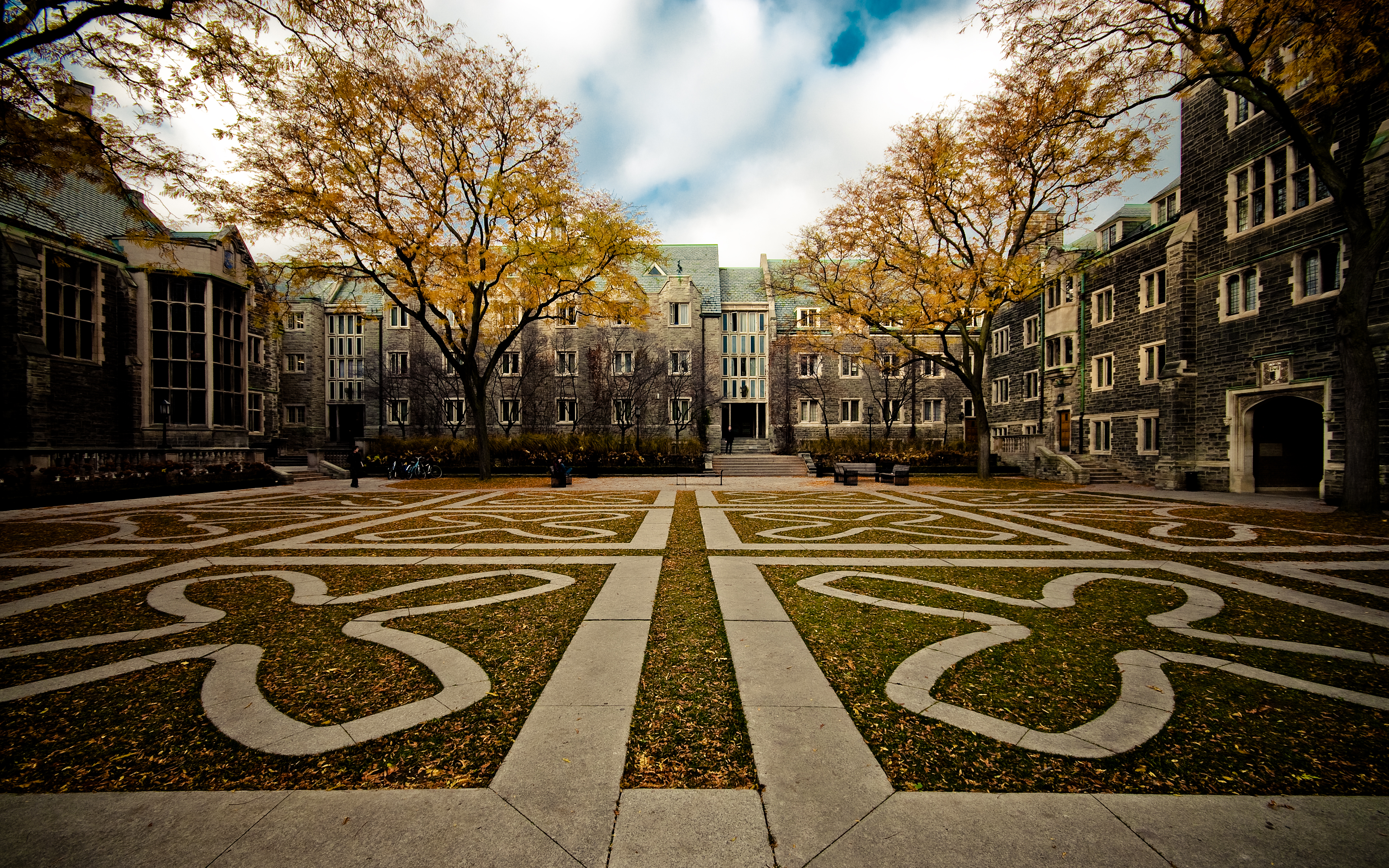 I decided to finally go see this interesting pattern laid out across the Trinity College Quad.It's a nice place. I like it a lot better than UC's.